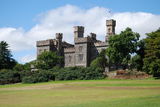 Lews Castle, Stornoway This is the Lews Castle, Stornoway, which overlooks Stornoway harbour.